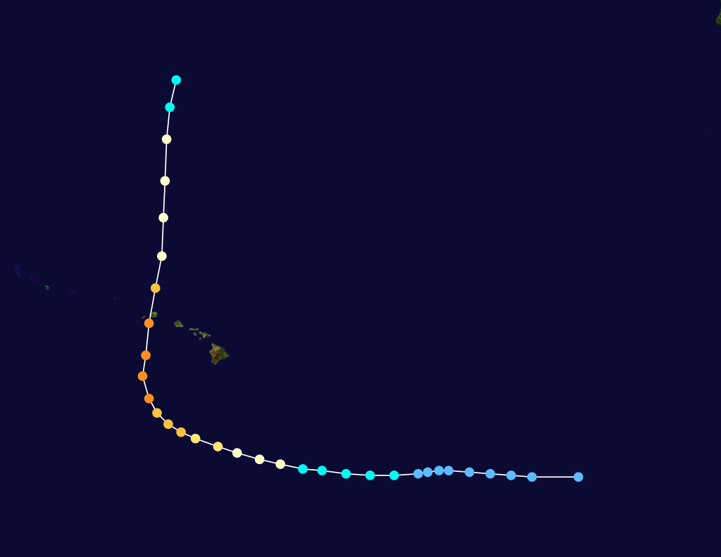 Hurricane Iniki (1992) track. Uses the color scheme from the Saffir-Simpson Hurricane Scale.